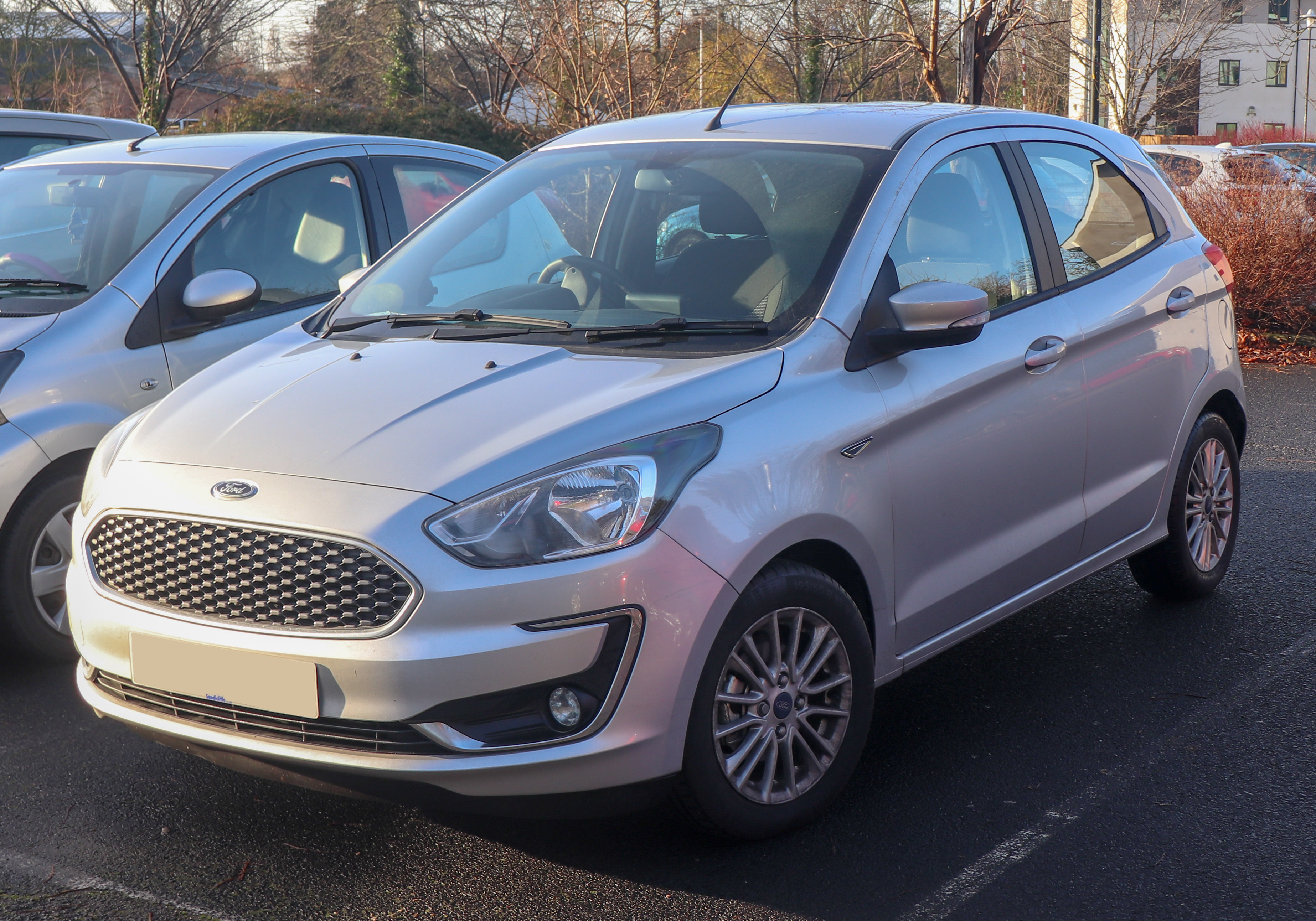 2018 Ford KA+ 1.2 Front Taken in Leamington Spa